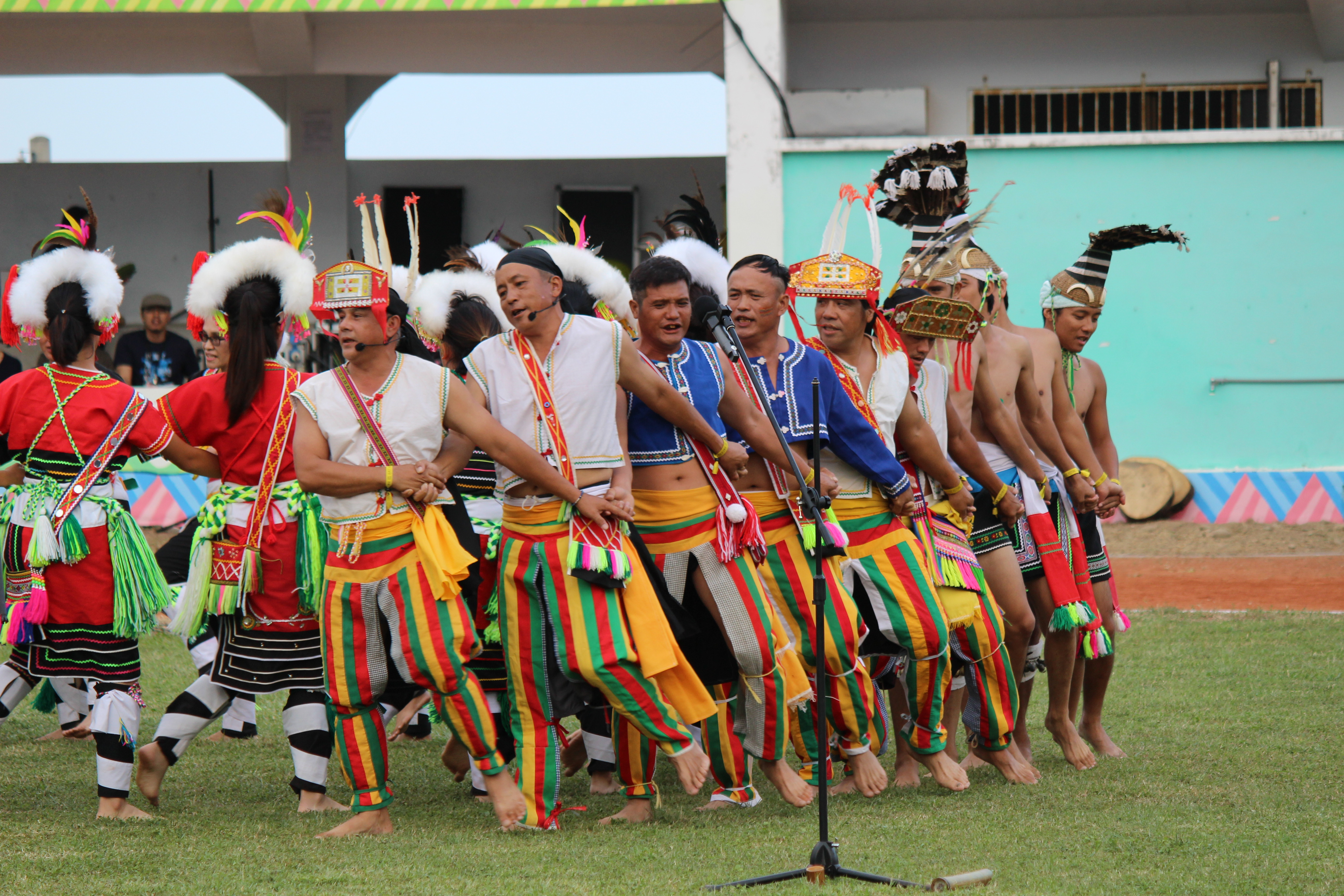 Taiwanese indigenous tribe members performing a group dance at the 2016 Amis Music Festival (阿米斯音樂節) in Dulan Village (都蘭), Taitung County, Taiwan